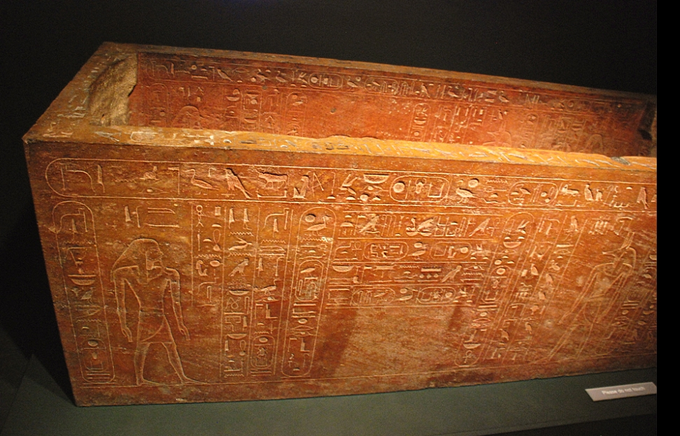 This beautiful quartzite sarcophagus was created by Hatshepsut and used by her to re-bury her late father, Thutmose I. It was presented as a gift by the wealthy American lawyer Theodore M. Davis to the Museum of Fine Arts (MFA), Boston in 1904.